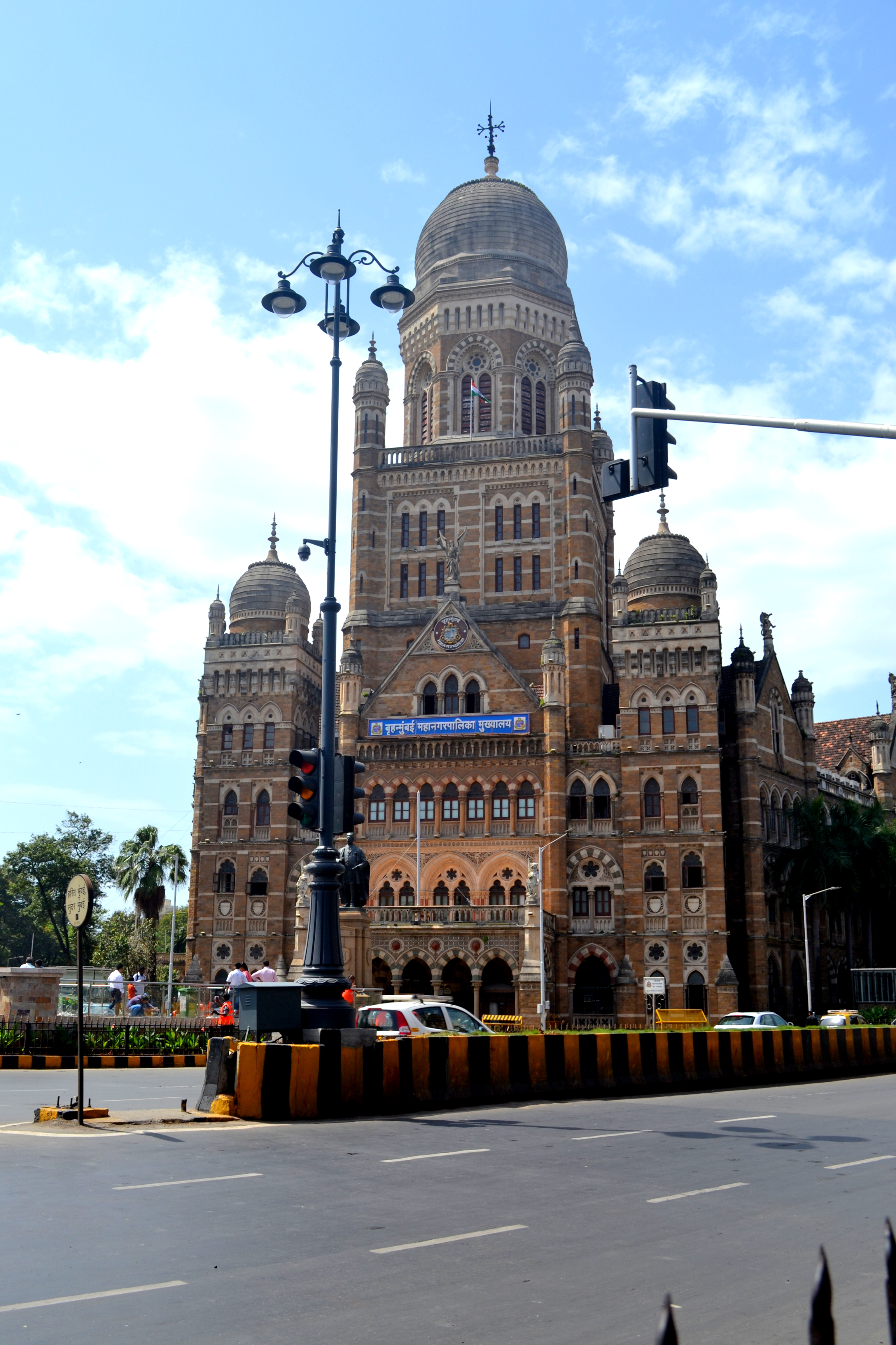 That i click ( Abhijit Malanadkar ) at mumbai cst my nikon D3100 (lens 18-55)